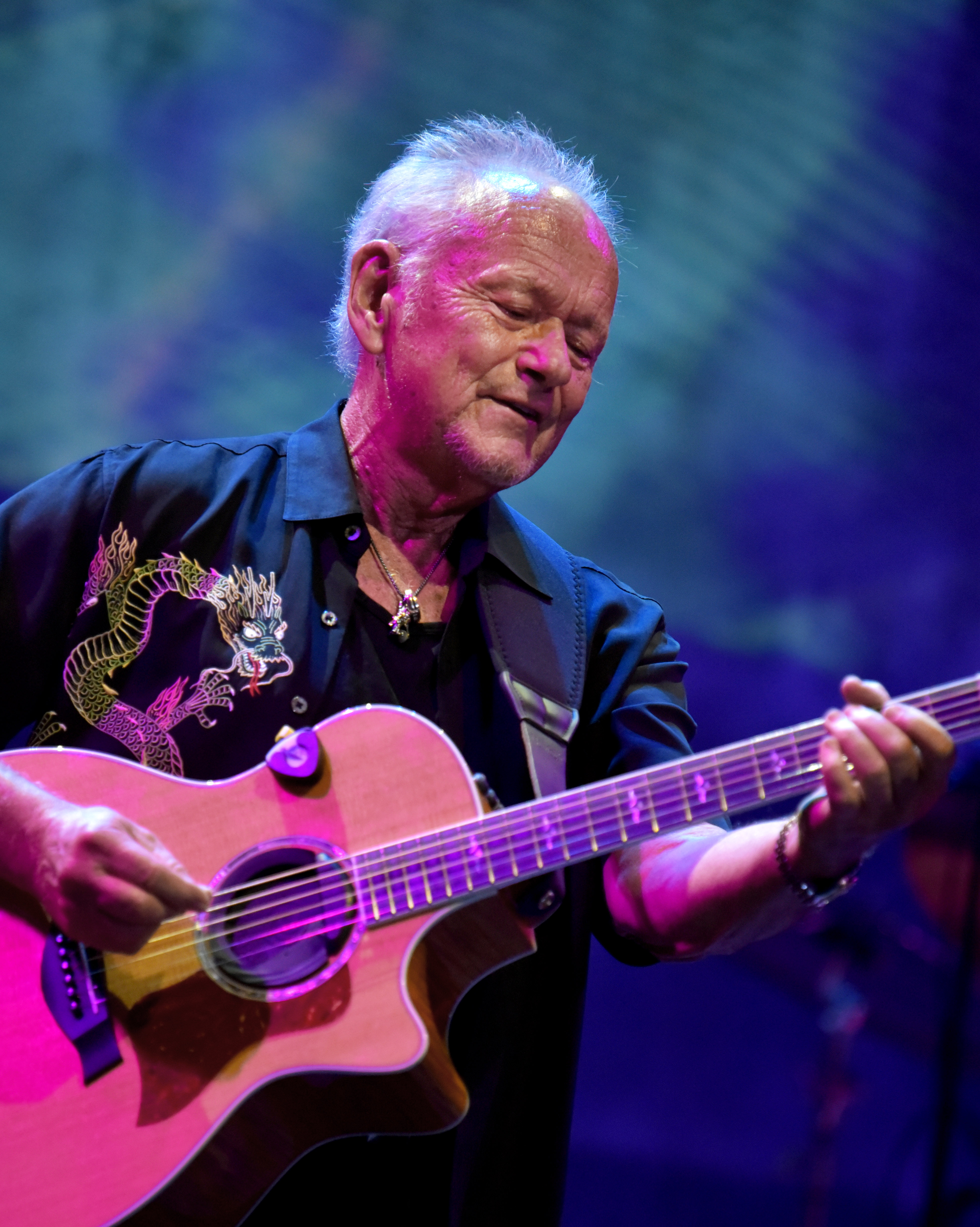 Jesse Colin Young Performs for the California Saga 2 Charity Concert in Los Angeles California on July 3, 2019 - Photo by Glenn Francis of